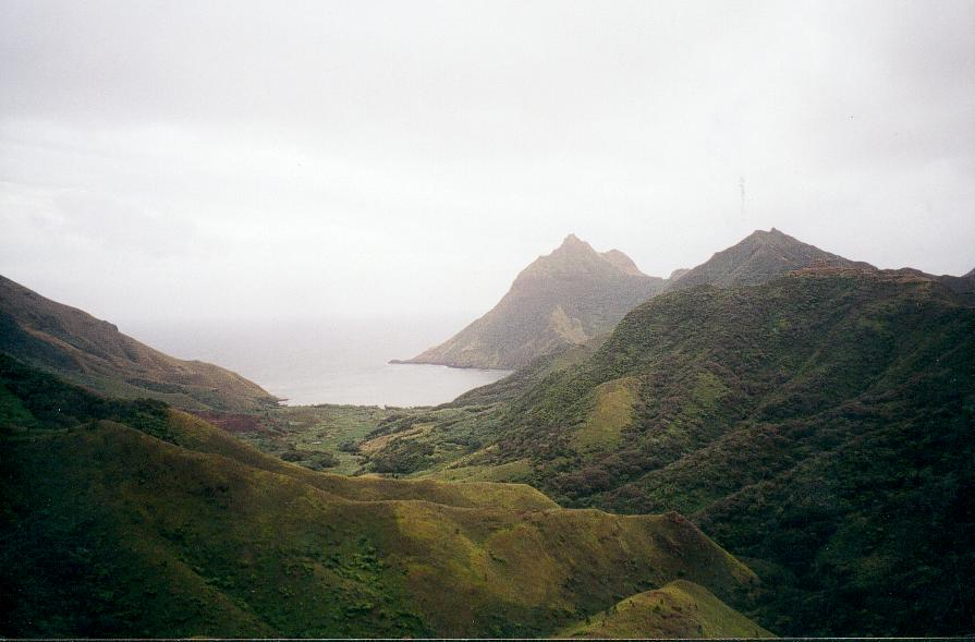 Hiri Bay, Rapa, Austral Islands, French Polynesia